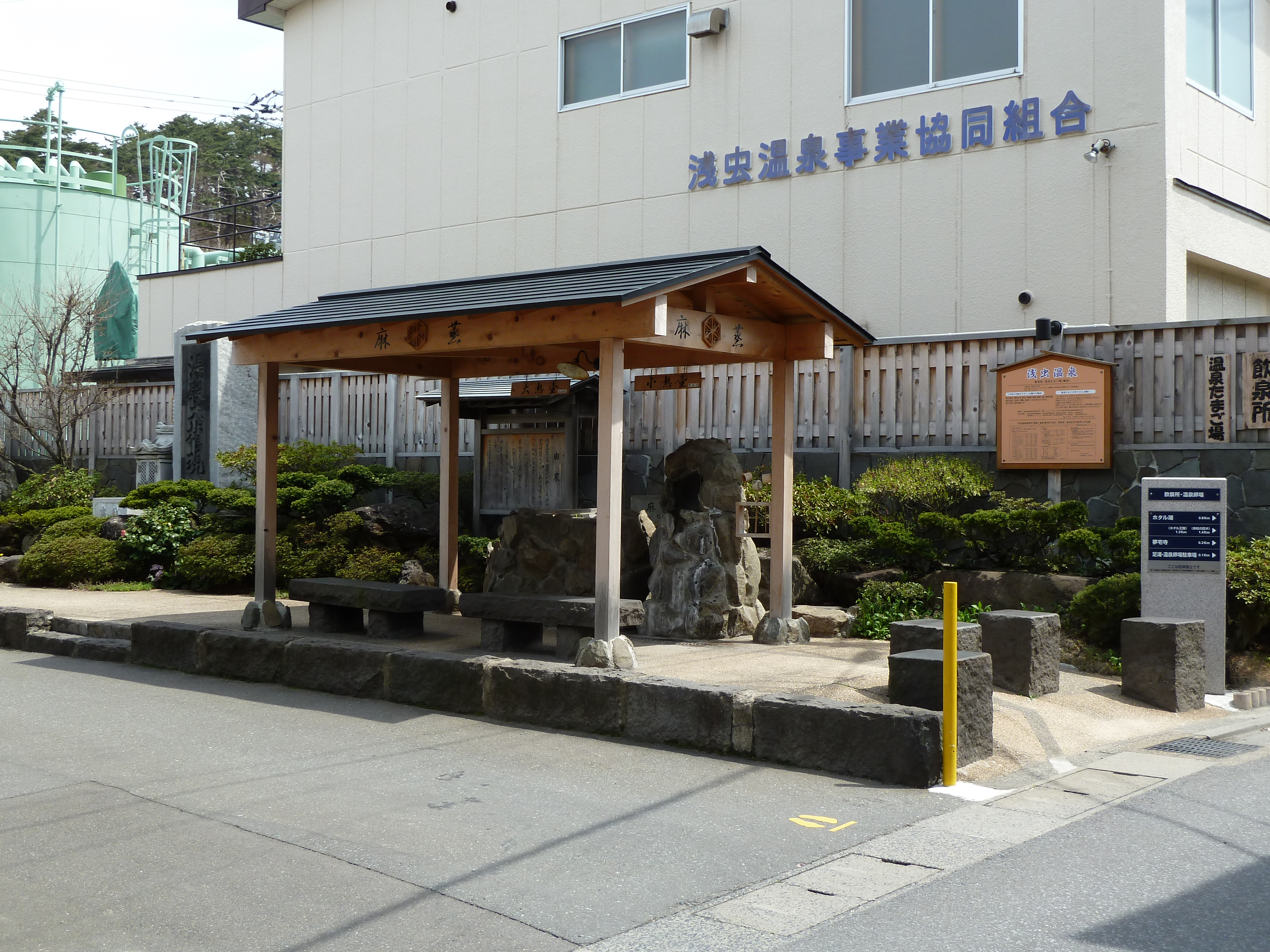 浅虫温泉にある飲泉所